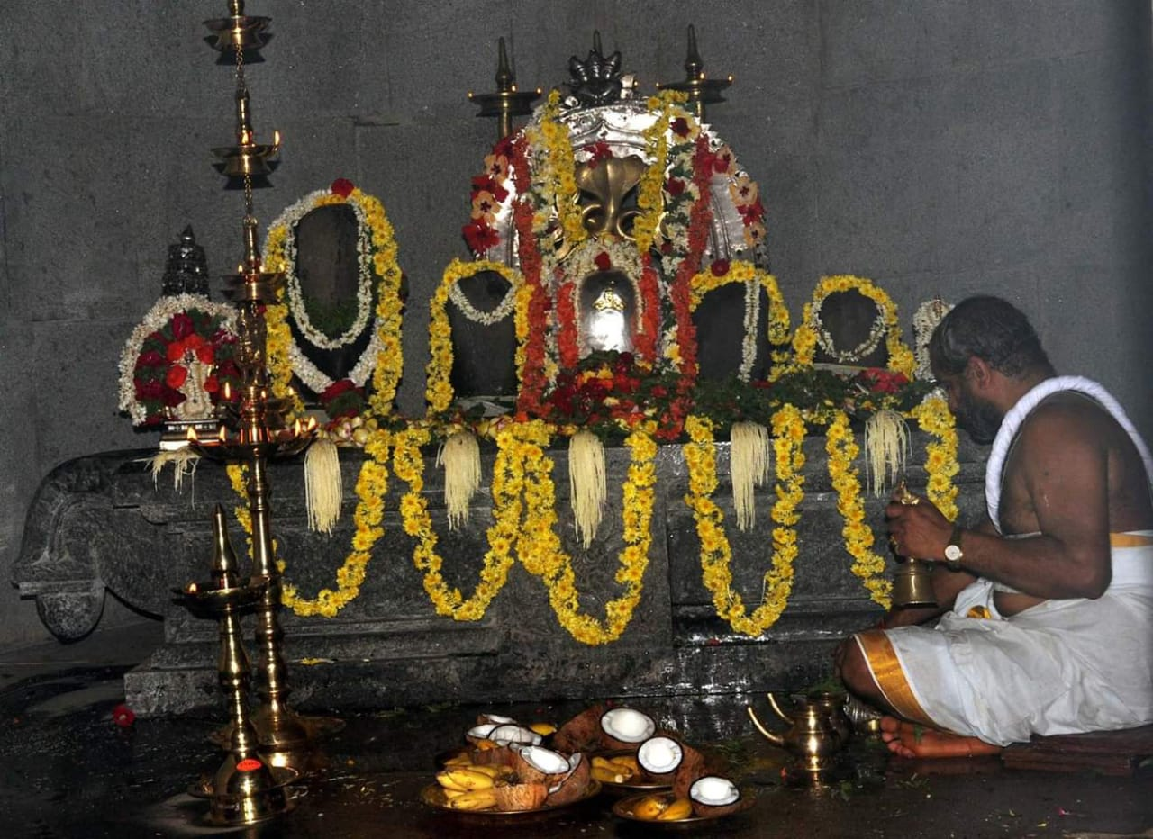 ಶ್ರೀ ಪಂಚಲಿಂಗೇಶ್ವರ ದೇವರು